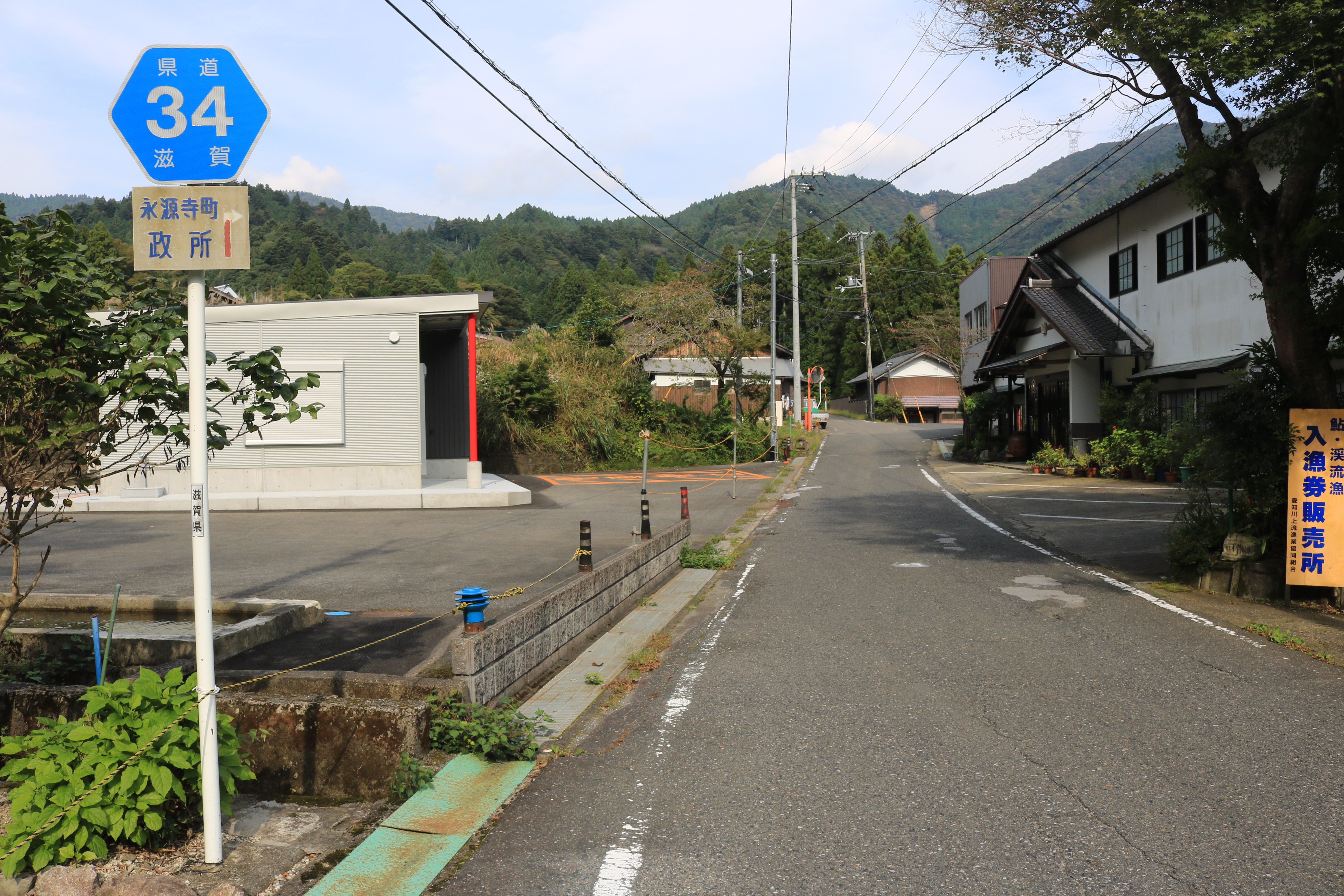 Shiga Prefectural Road Route 34 in Mandokoro-chō, Higashiōmi, Shiga prefecture, Japan.